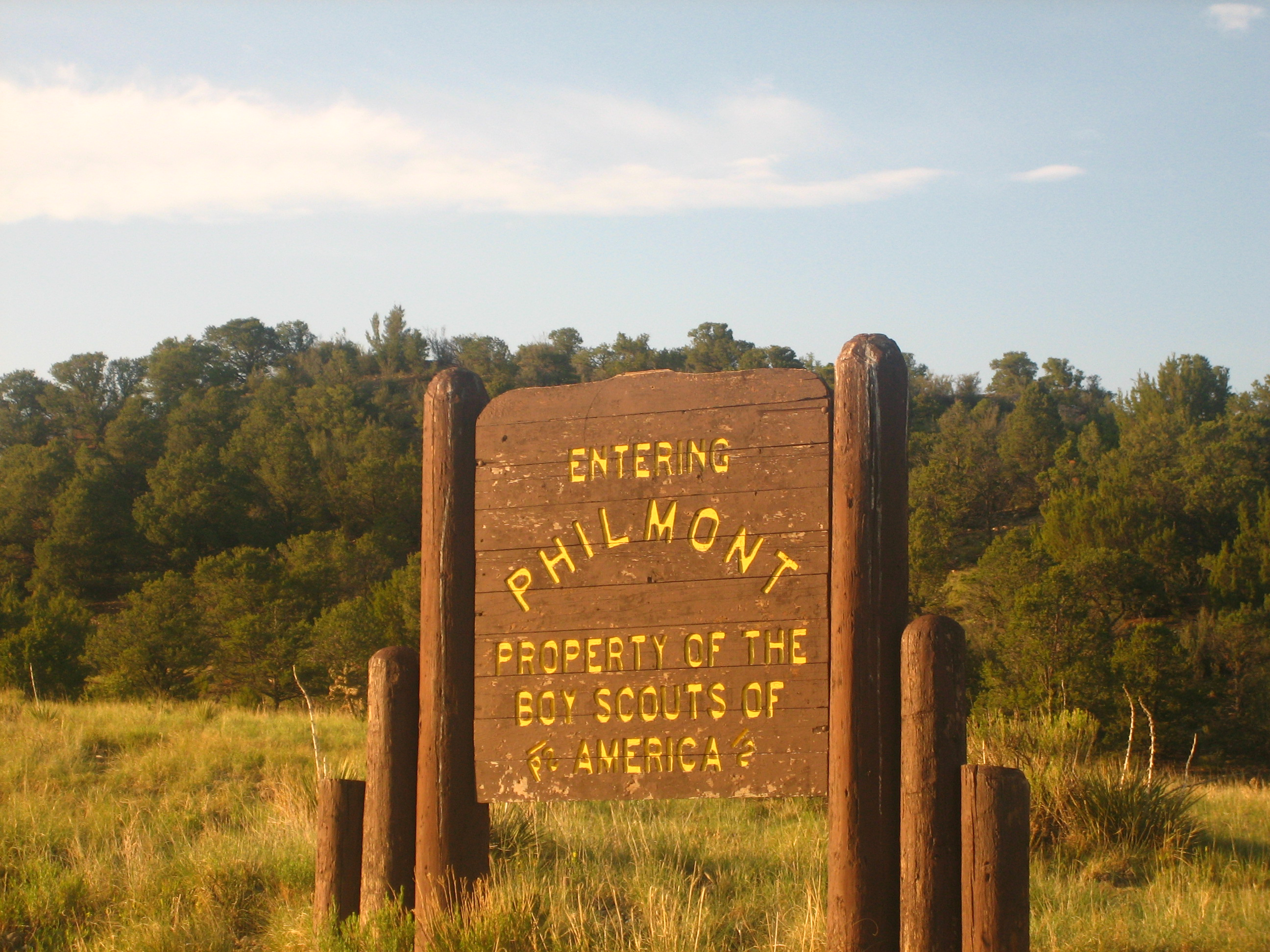 I took photo on July 14, 2008.Billy Hathorn (talk) 18:49, 19 September 2008 (UTC)